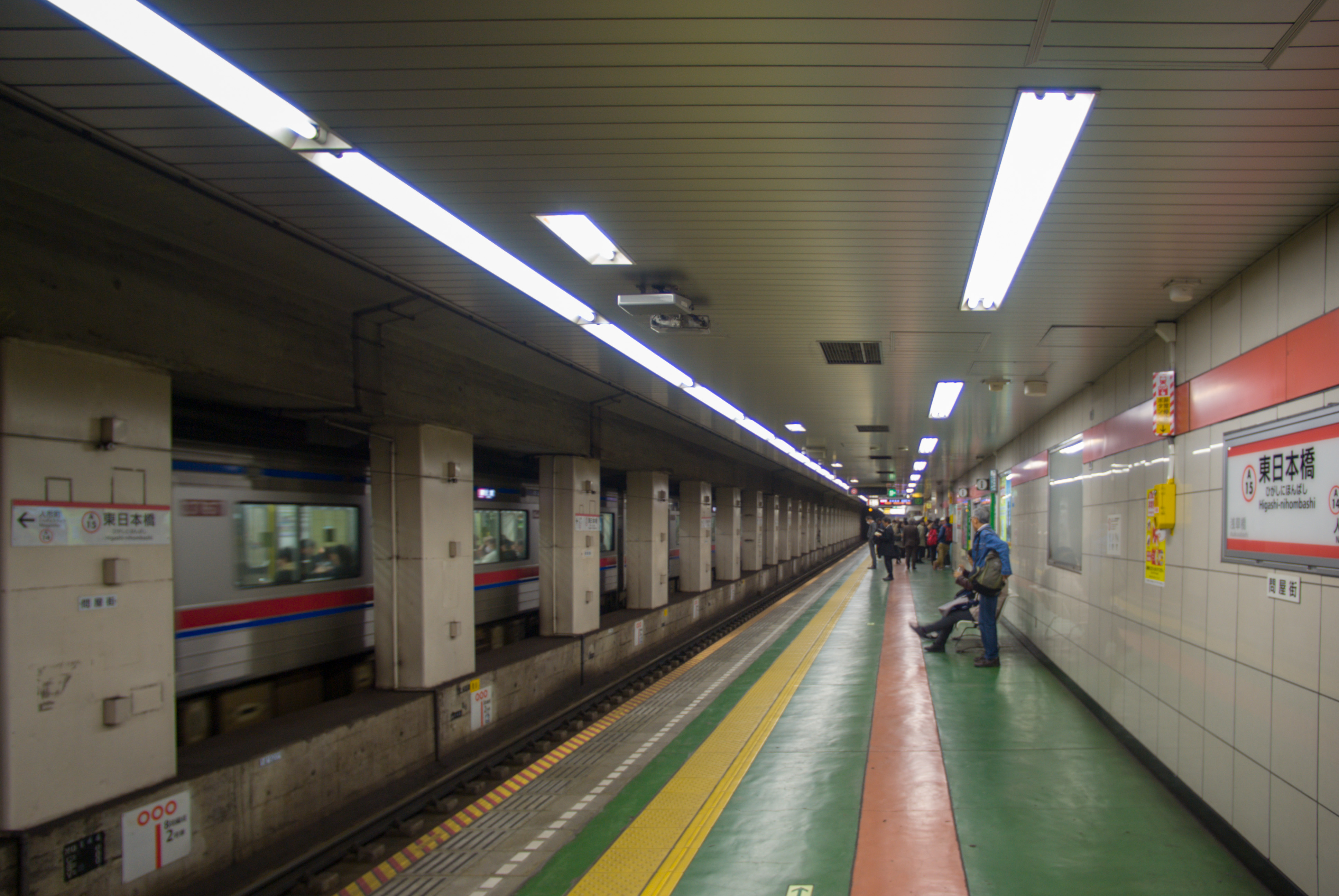 Tokyo Higashi-Nihombashi station 2019-04